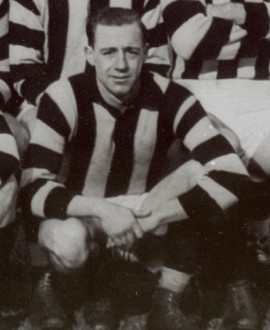 Photograph of Jack Burns in 1944